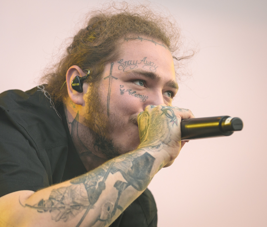 Post Malone at the main stage at Stavernfestivalen. The concert took place on 14. July 2018 in Stavern. Lineup:Post Malone (rap)